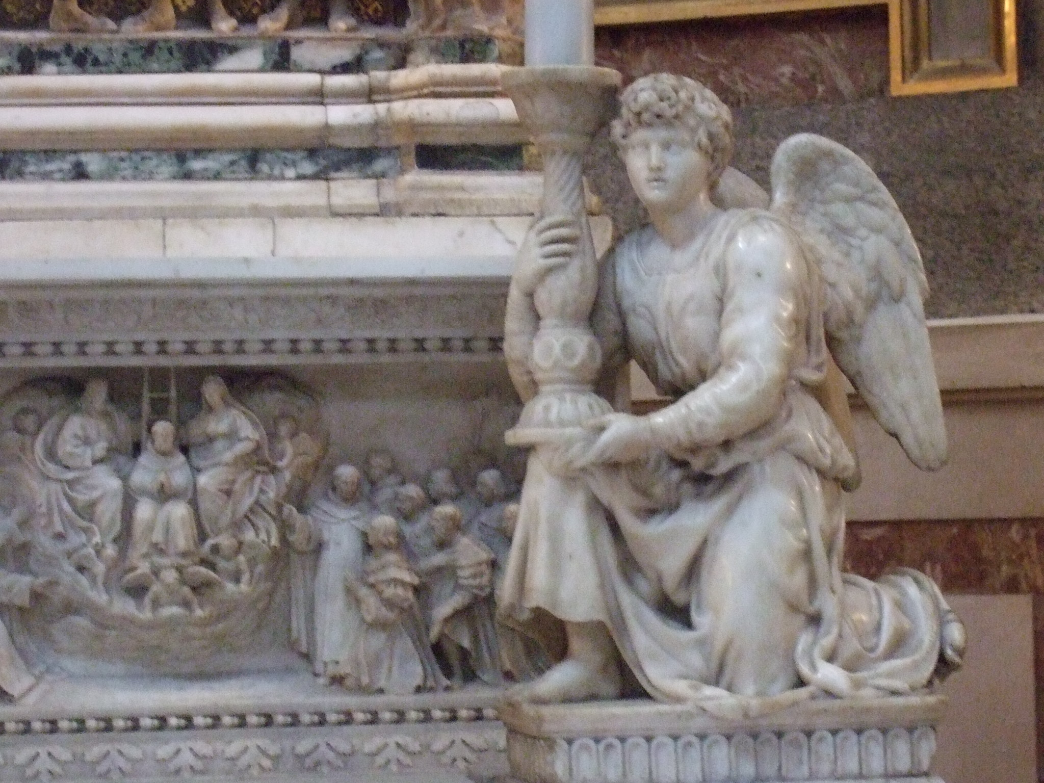 Angel (1494) by Michelangelo on the Shrine of Saint Dominic, Basilica of Saint Dominic, Bologna, Italy